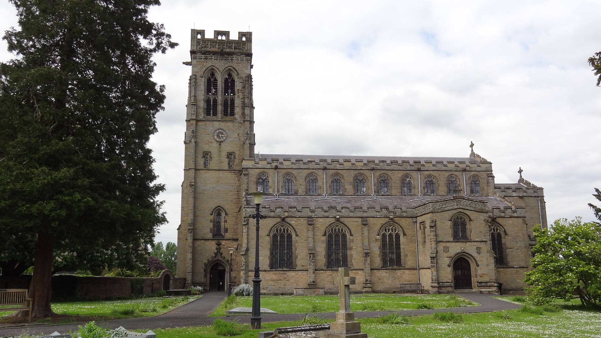 Broseley Church, 4th church on the site, completed 1845